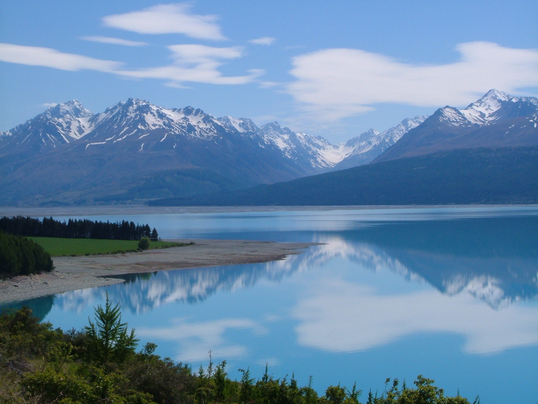 Northern end of Lake Pukaki in front of Burnett Mountains. The valley of Jollie River is in the center of the picture; Tasman Valley leads to the left out of the picture.